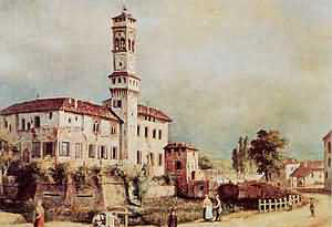 La Rocca di Busseto-19th century